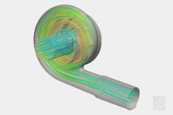 Some advanced features like flow involving rotating parts and porous media can also be simulated using SimScale - for instance the rotating mesh in a centrifugal pump can be modeled as shown in this image.